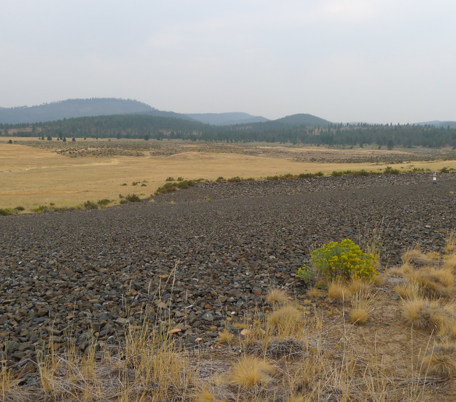 from the, which processed uranium ore into. From 2017 NRC visit